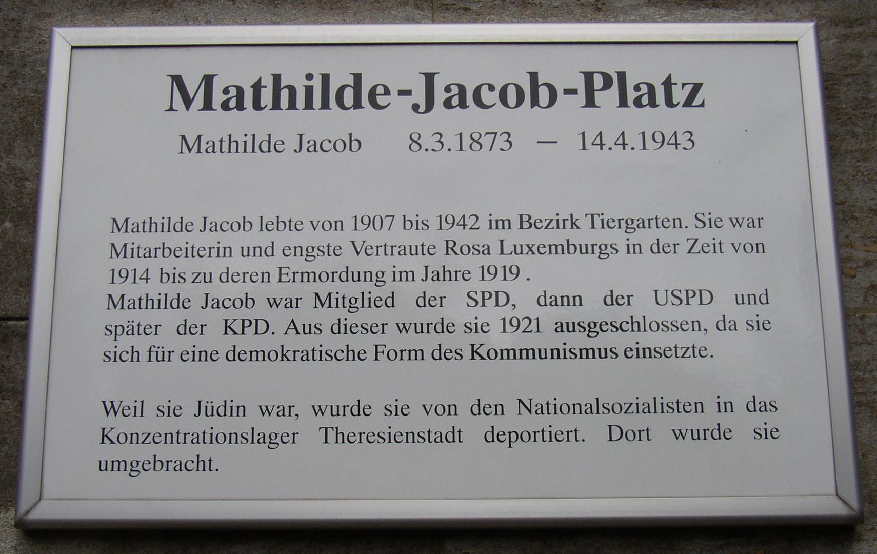 Memorial plaque for Mathilde Jacob in Berlin-Moabit, Germany